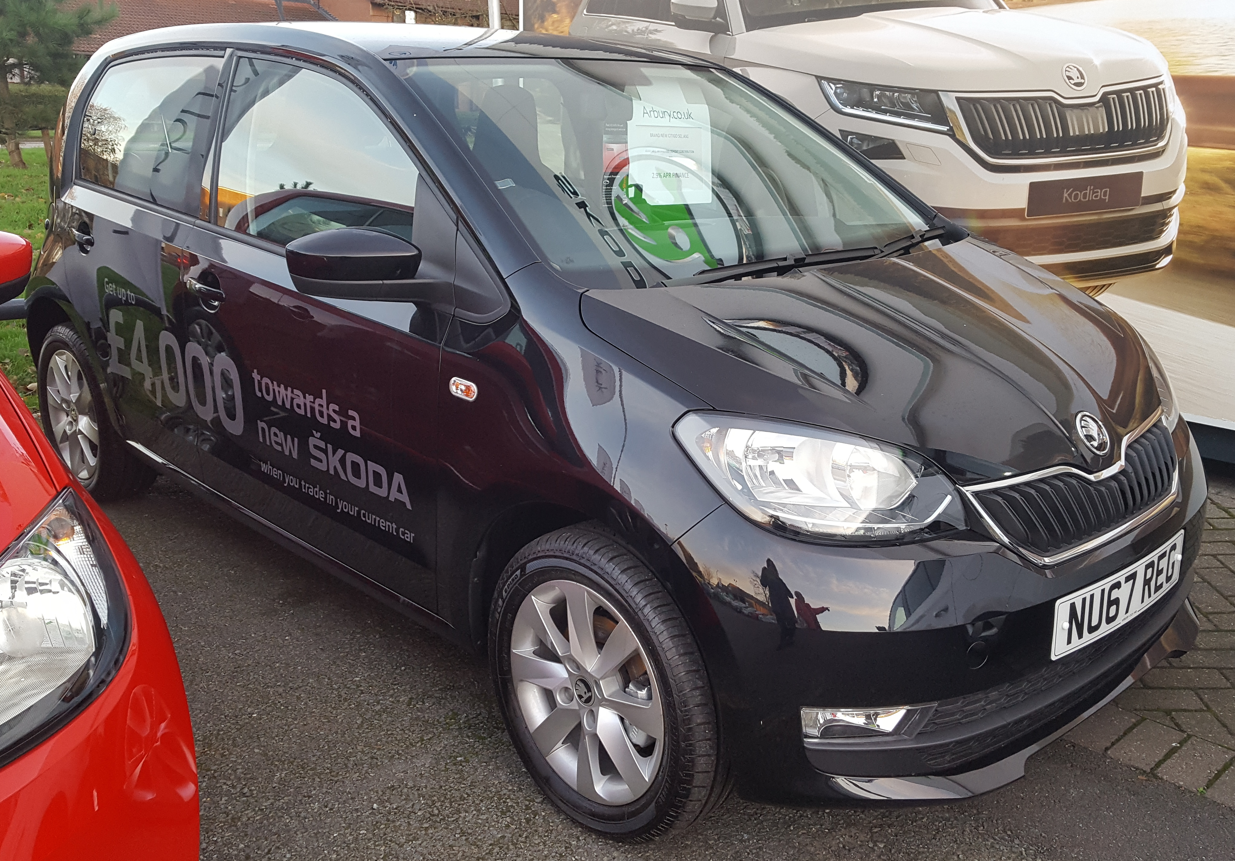 2017 Skoda Citigo Taken in Leamington Spa